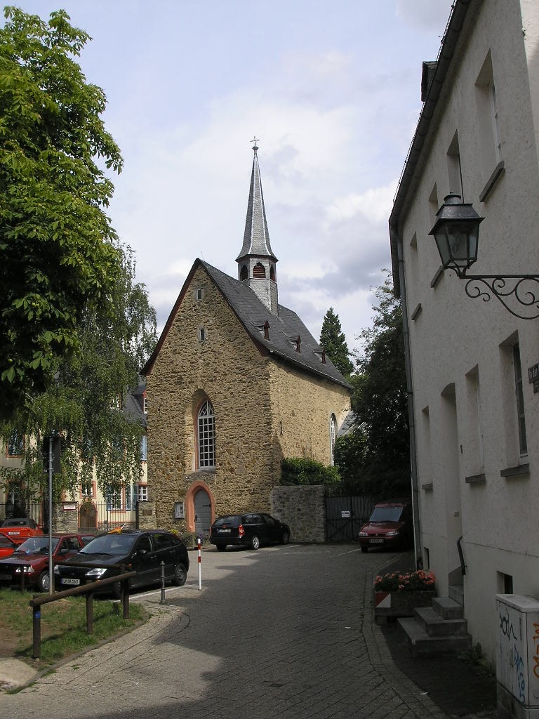 Protestant-Lutheran St. Johann Chapel in Limburg an der Lahn.